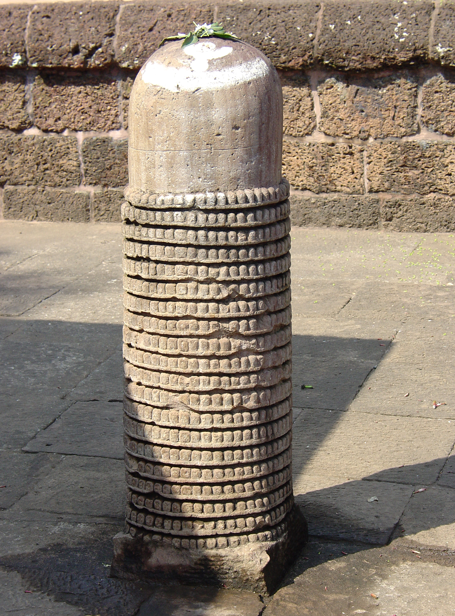 Sahasra Linga. Northwest corner, Parashurameshvara Temple, Bhubaneshwar. This unusual lingam, set up just northwest of the jagamohan, is carved with 1000 miniature representations of itself. Representing an icon in multiplicity is intended to show the enormous power of the multiplied object. In Heian Japan, a team of sculptors at Sanjusangen-do made 1001 copies of a statue of Kannon (Avalokiteshvara) for the same reason. Copies of Buddhas are also sometimes multiplied like this; for example, in Cave 7 at Ajanta, or Temple 12 at Nalanda.